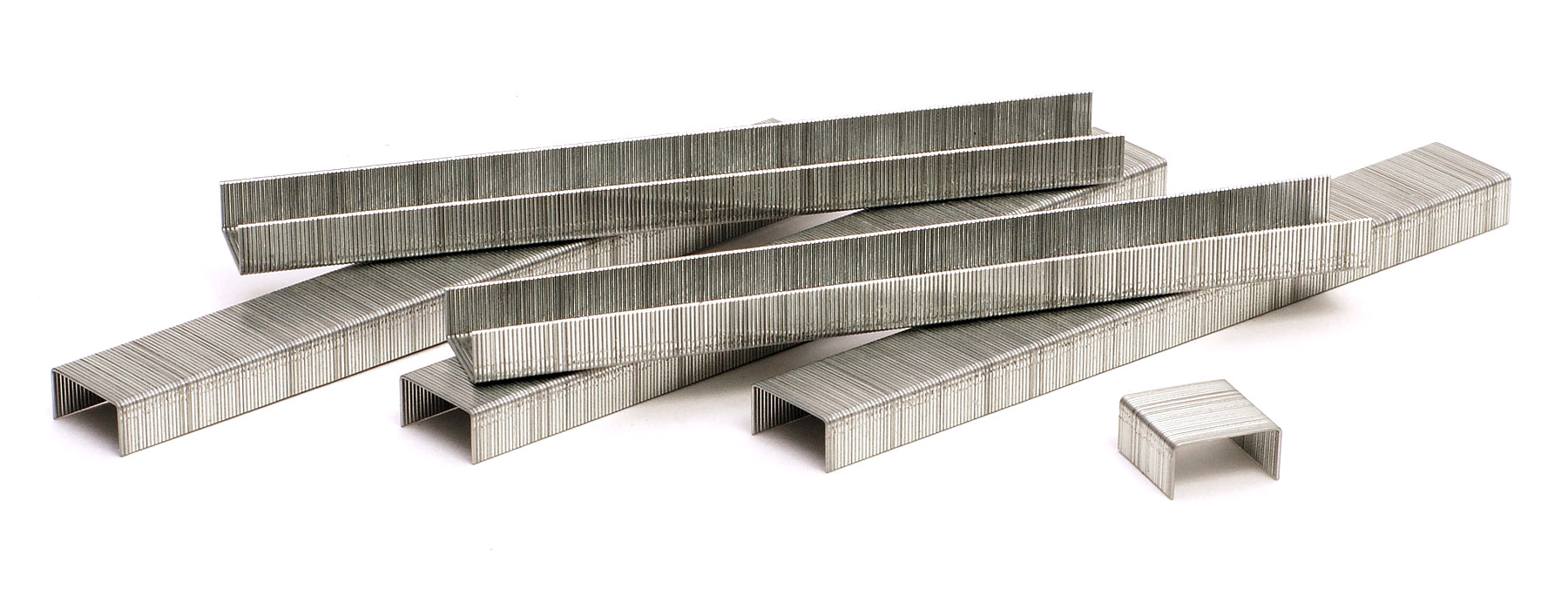 A pile of staples used for a common office stapler.